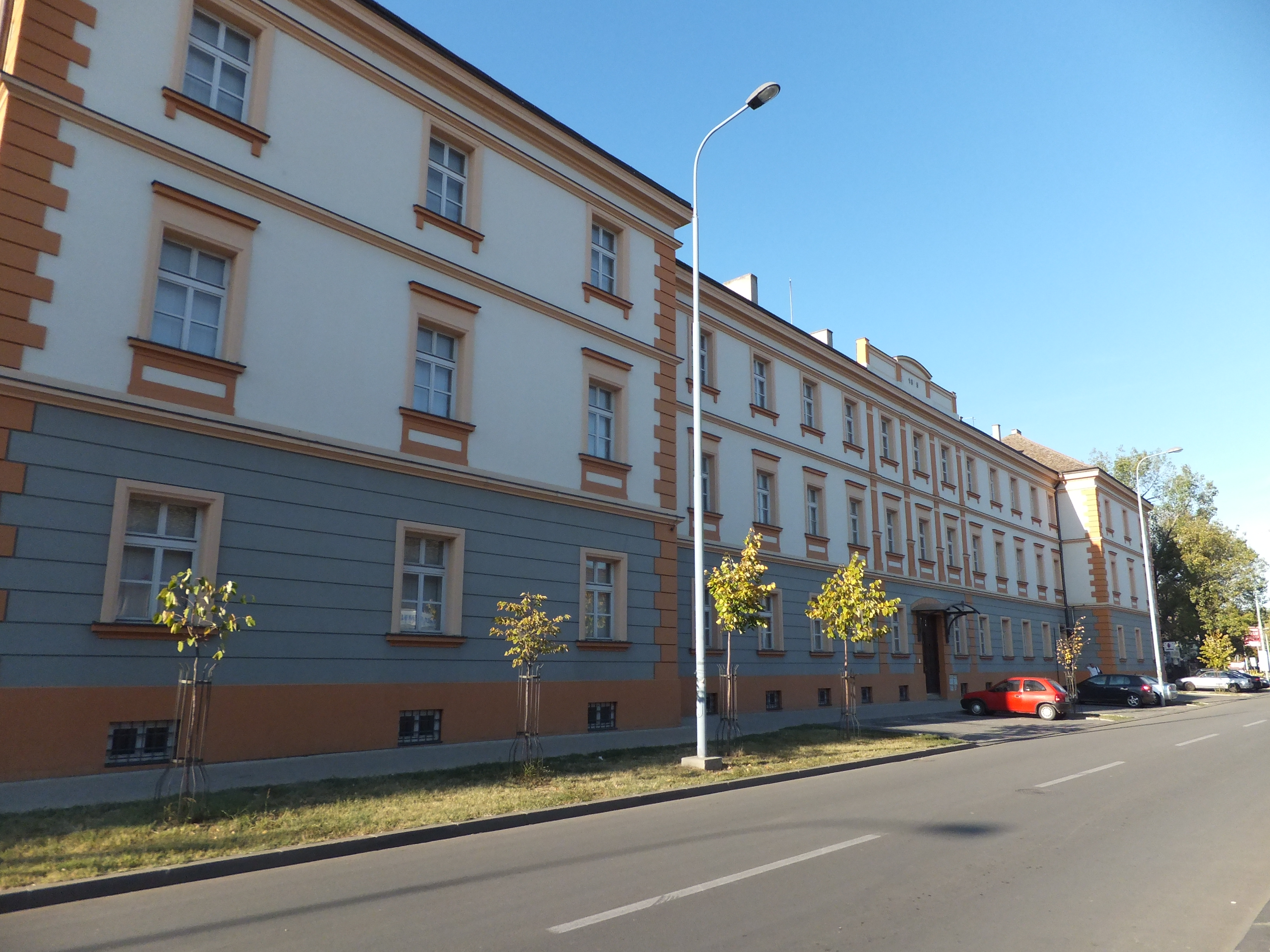 Building of Historical Archive in Pancevo.